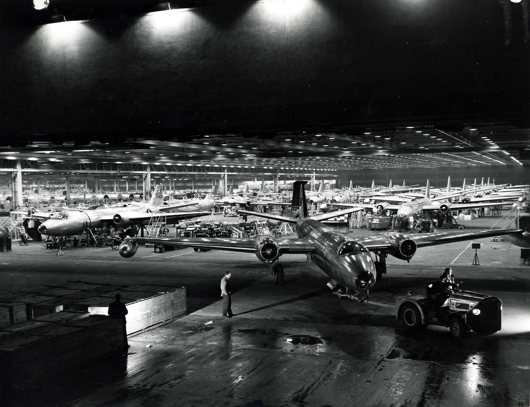 Martin final assembly plant. B-57A on the left (first aircraft is 52-1422) and RB-57A on the right.